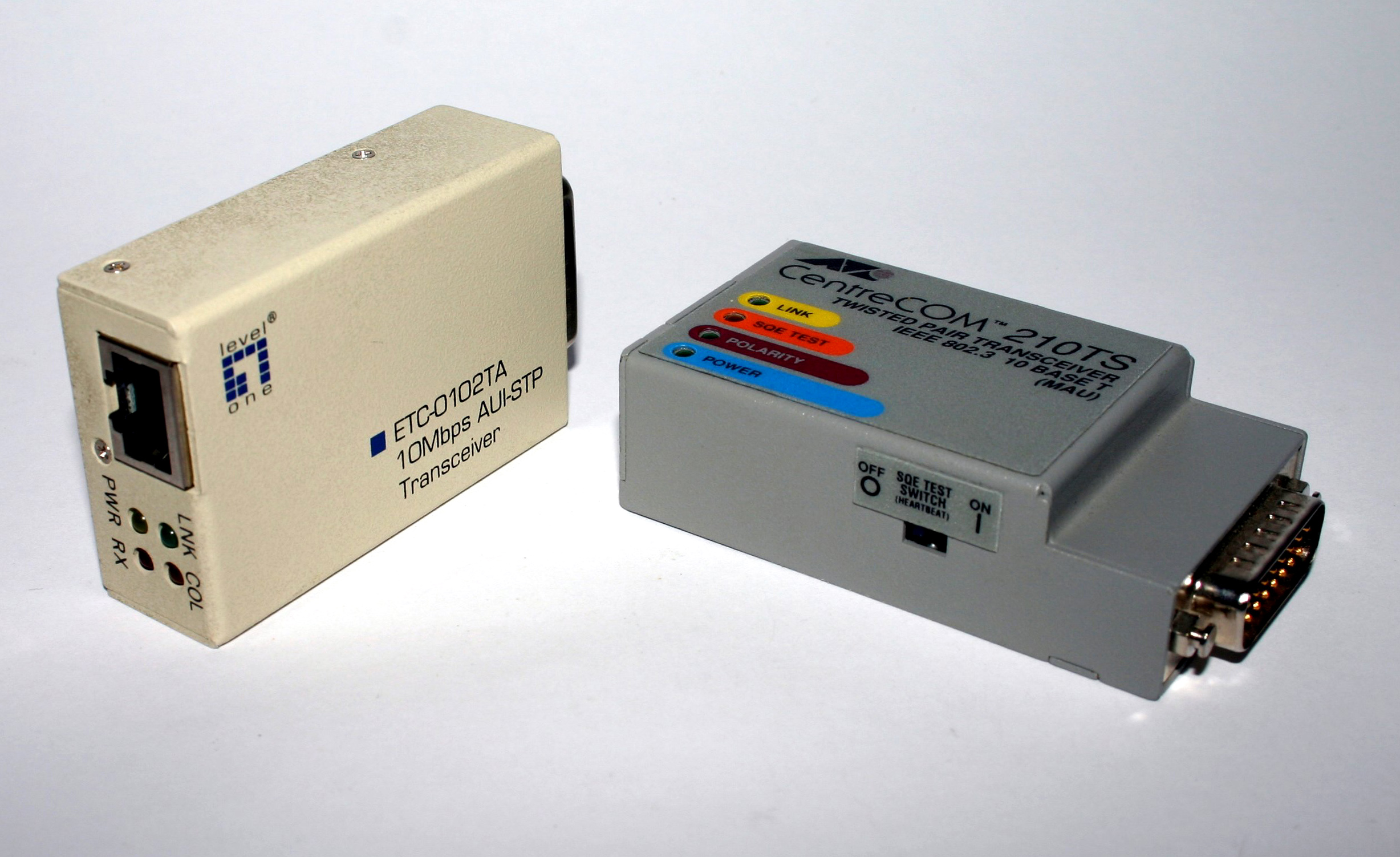 A twisted pair transceiver. Date: 2006-04-08 Location: German Wikipedia Workshop, Cologne (2006) Photographer: towo